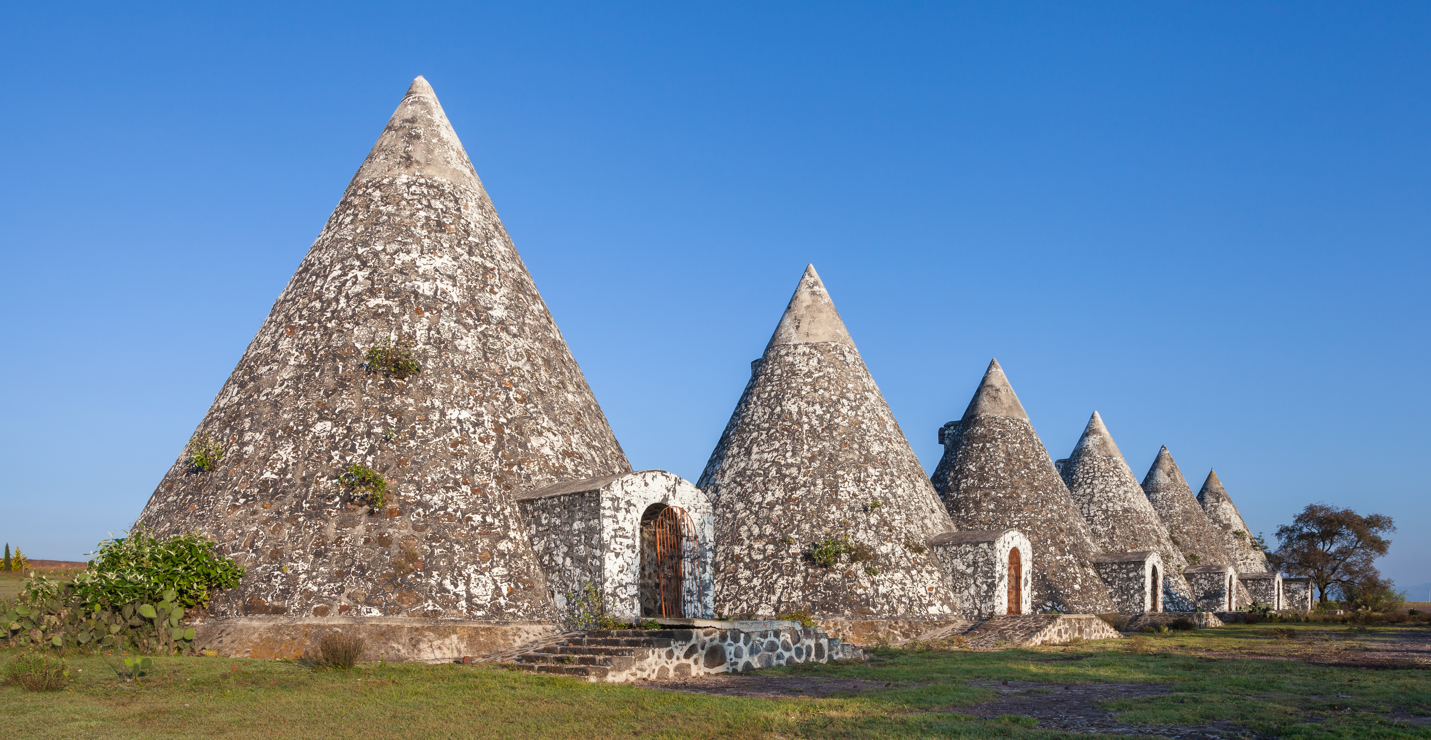 Conical cereal silos near Acatlán, Hidalgo, Mexico.